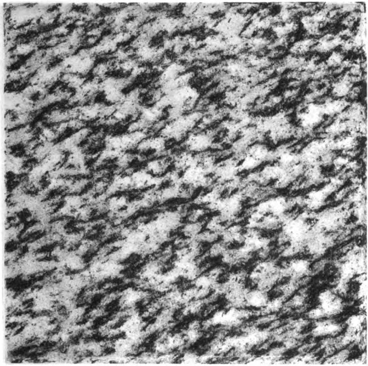 Plate VIII of 1898 publication called Maryland Geological Survey Volume Two, with caption "FOLIATED GRANITE, Port Deposit, Cecil County." Width is approximately 10.7 cm. The formation is now called the Port Deposit Gneiss.